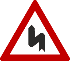 Diagram of road signs of Luxembourg